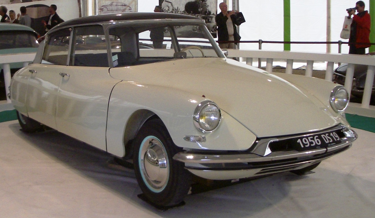 This is a lightened and slightly rotated version of an image already uploaded to wikipedia. I think it's an improvement, but the shortage of lighting for what was an indoor picture and the weird reflections along the car's flank mean that this will never be a perfect "portrait-picture" of a DS IMHO. (Feel free to prove me wrong...)